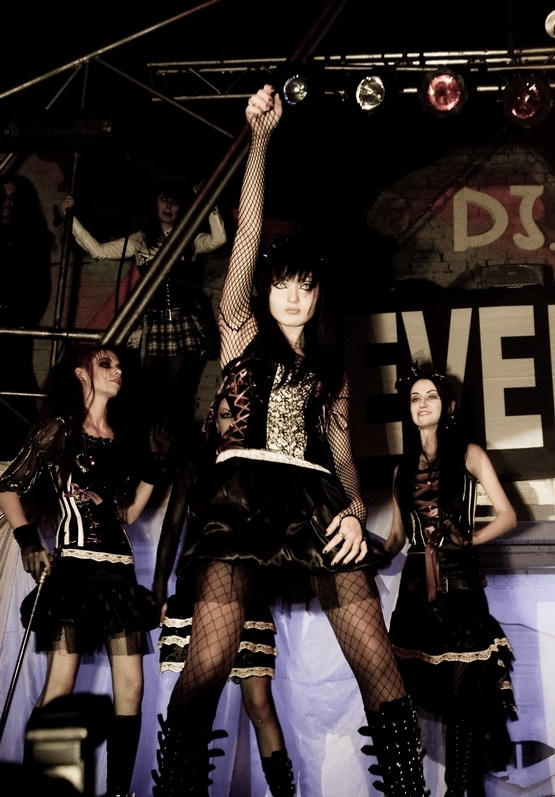 Festival "Deti Nochi: Chorna Rada", stage